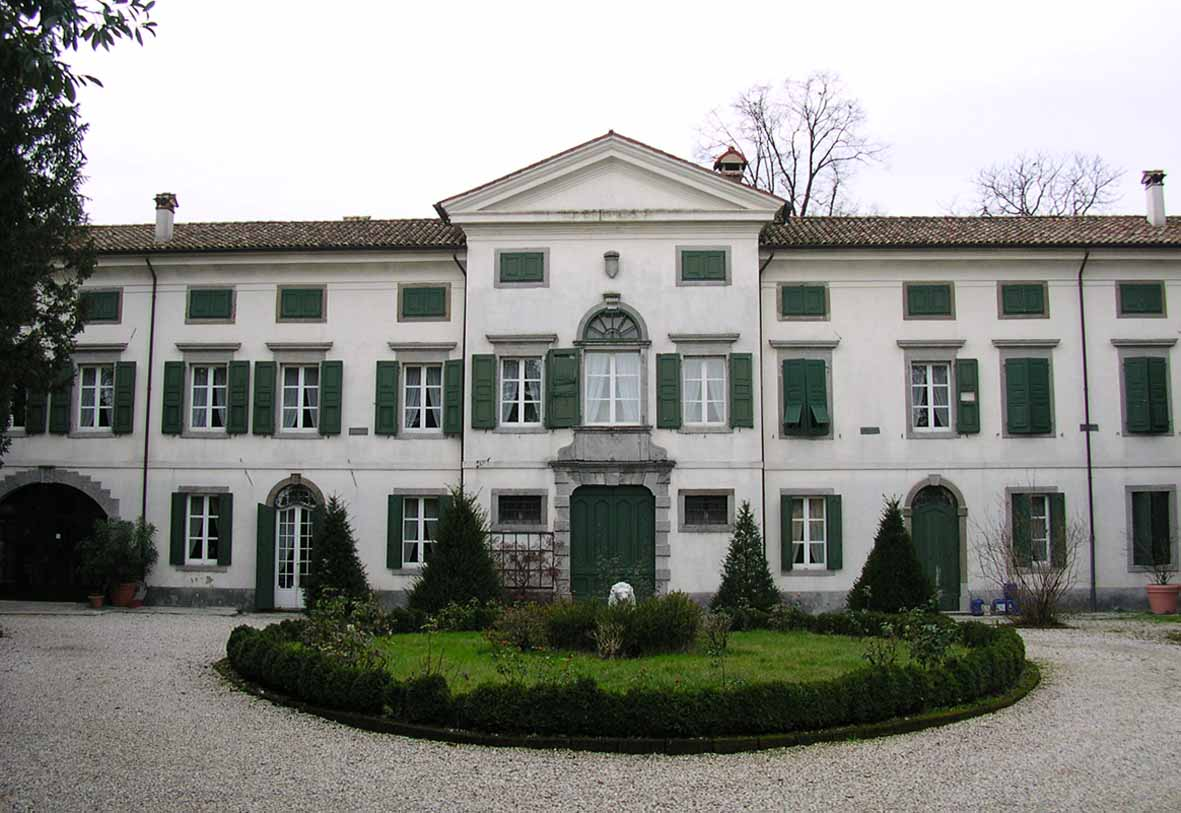 Tissano,_villa_Agricola_del_Torso